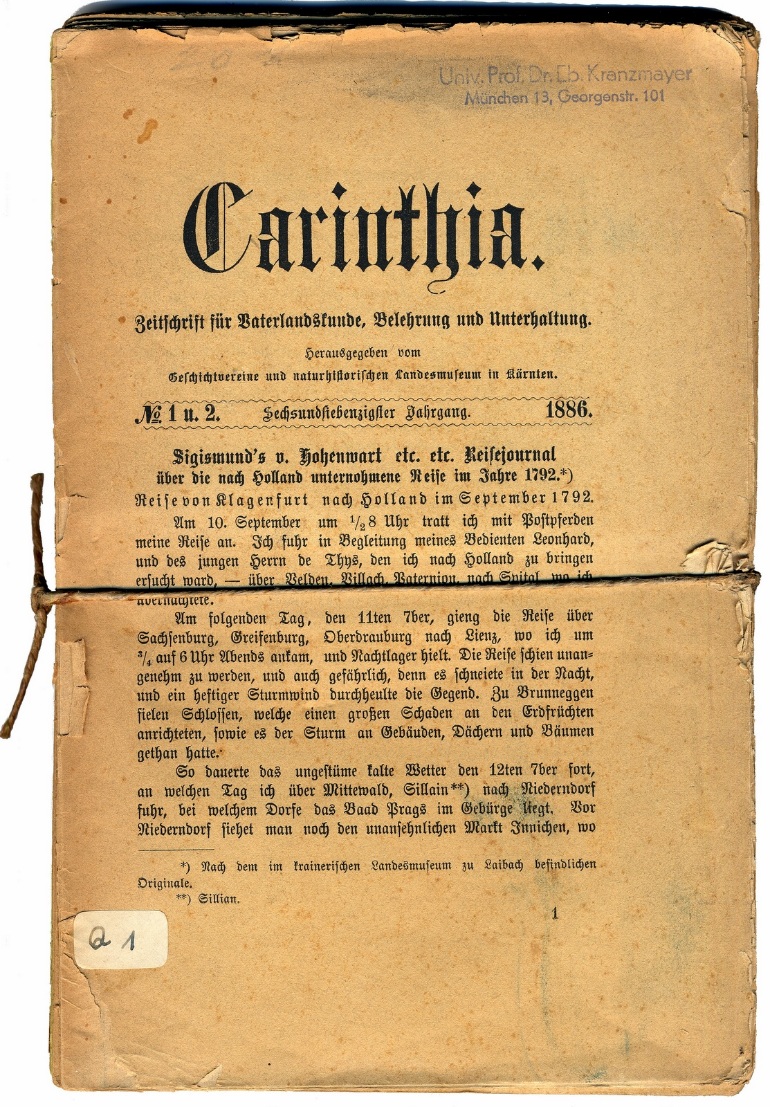 Carinthia 1886, third oldest german journal, published in Klagenfurt, Carintia, Austria, EU.